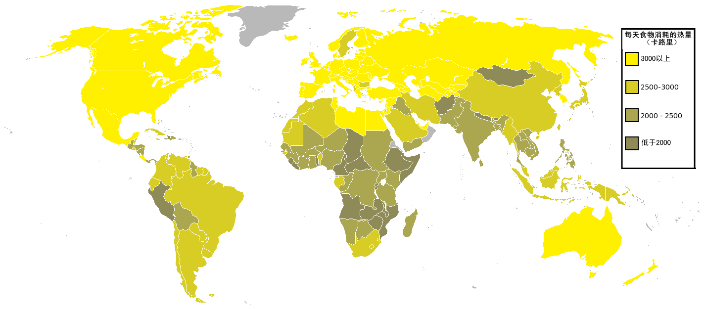 A map showing the average daily calorie consumption in countries all over the world. Oman, Greenland, and Eritrea do not have sufficient data.